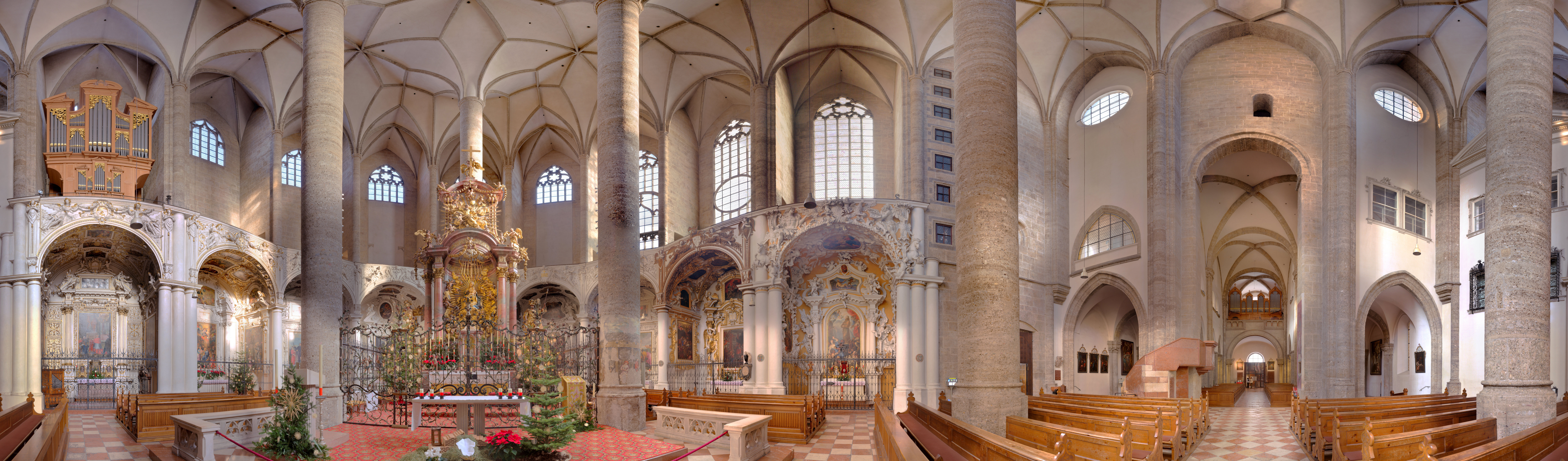 panoramic view of Franziskanerkirche in Salzburg